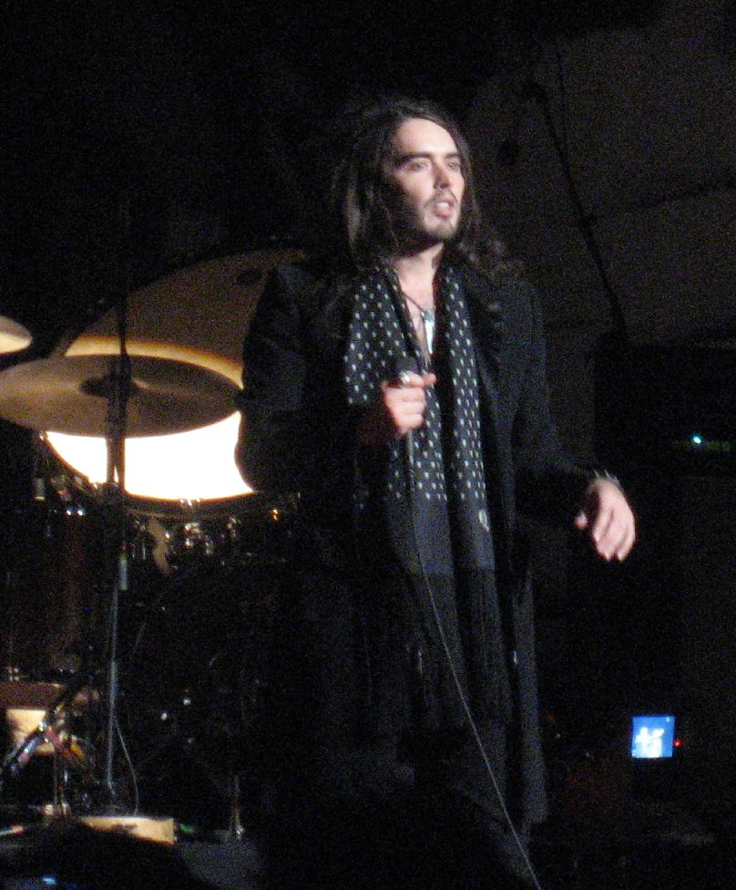 Comic and Morrisey fan Russell Brand performs impromtu stand-up at the London Roundhouse following the cancellation of a Morrissey gig on Friday 25 January 2008 after he experienced throat problems after a few songs. Brand was also joined by David Walliams and Jonathan Ross. MTV news story archive version.